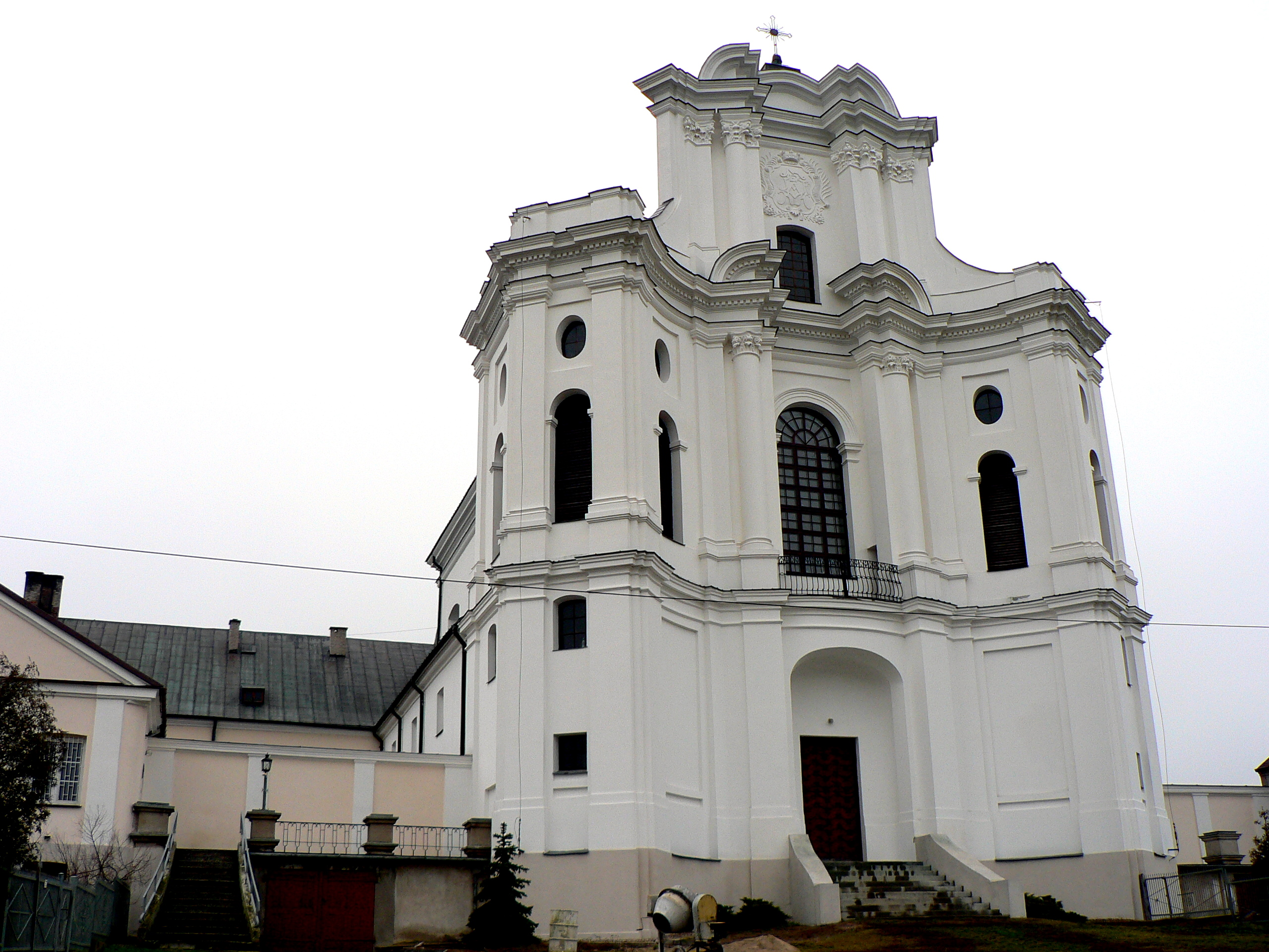 All Saints church in Drohiczyn, Poland